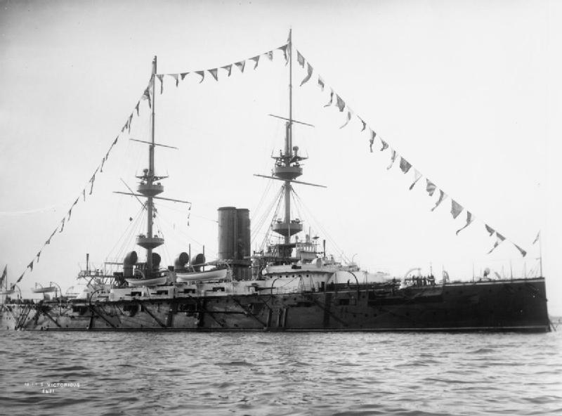 Ptotograph of British battleship HMS Victorious.